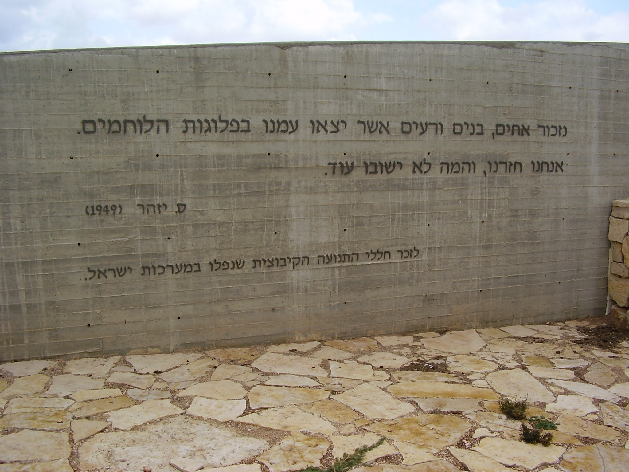 Kibbutzim Memorial